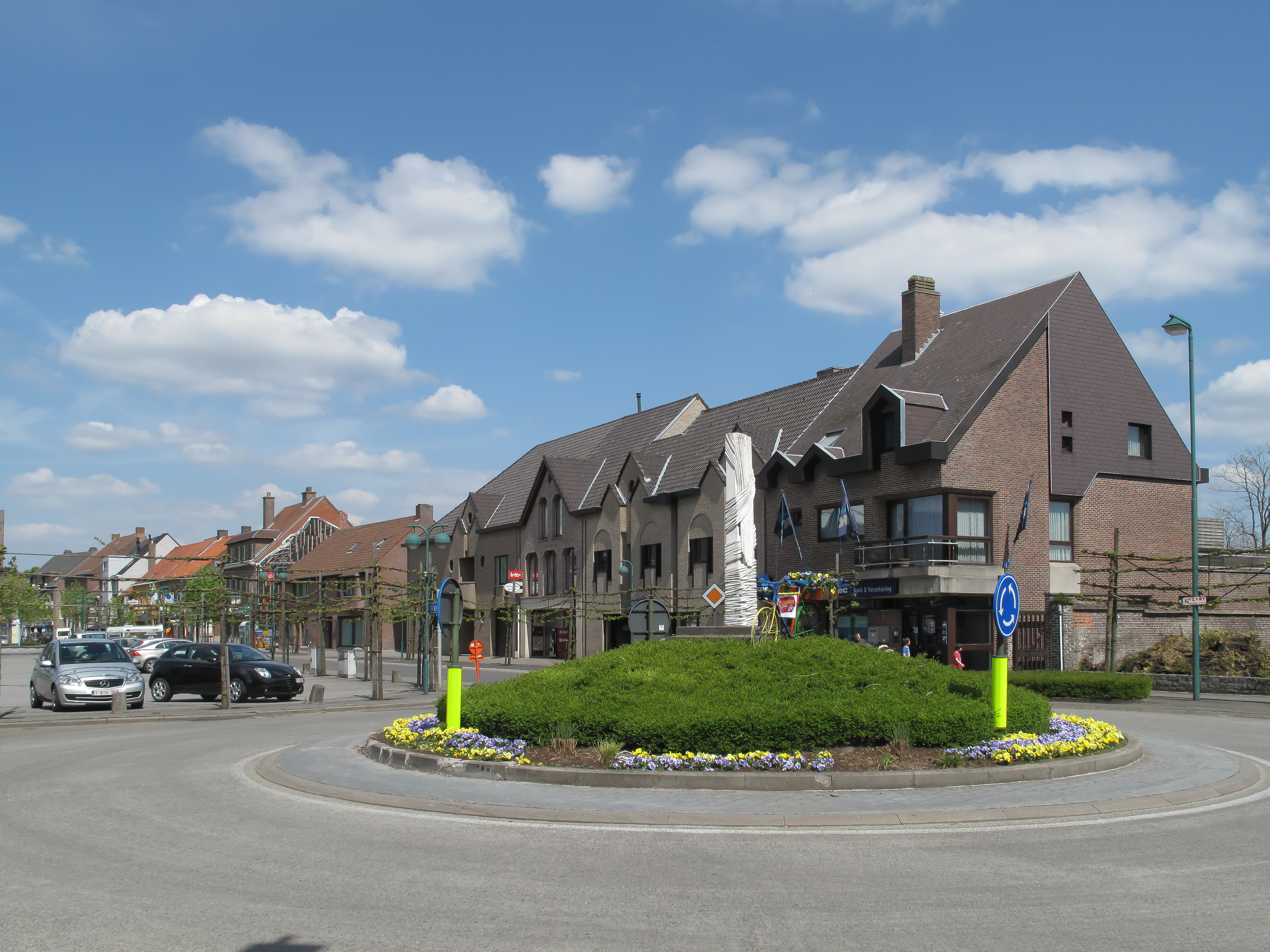 Sleidinge, roundabout